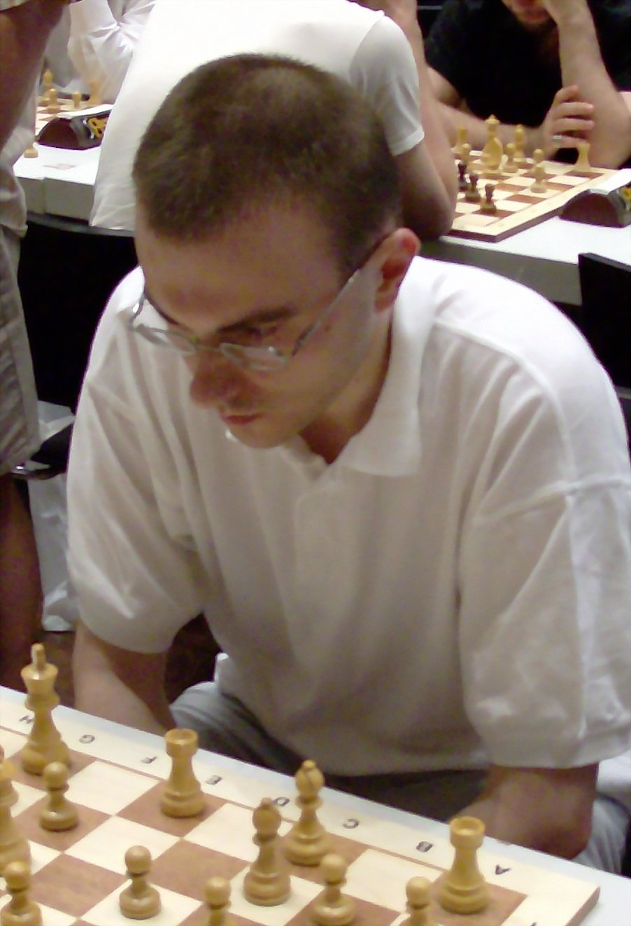 Michael Prusikin, German chess grandmaster